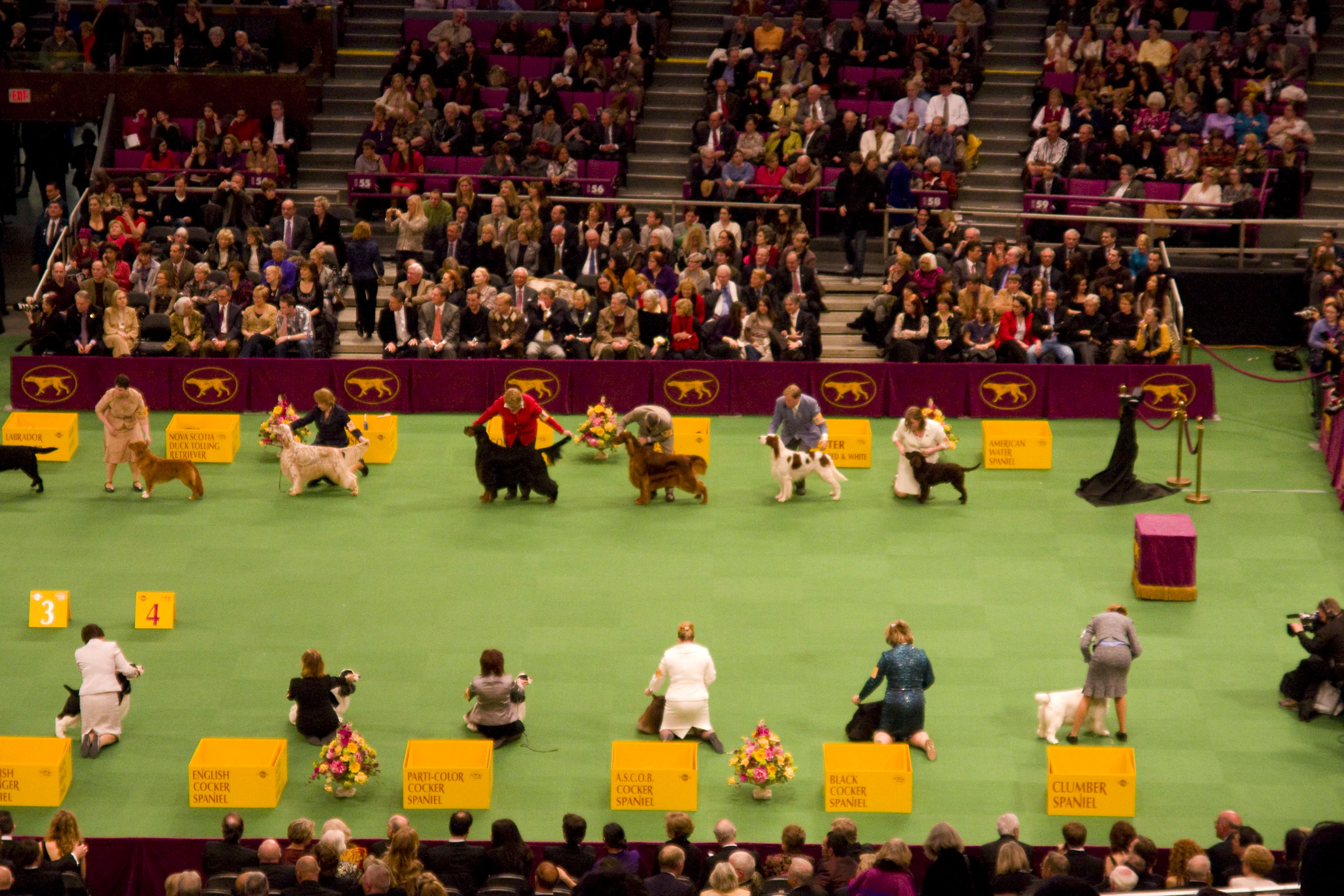 A photograph of Sporting Group judging at the Westminster Kennel Club Dog Show in 2010.